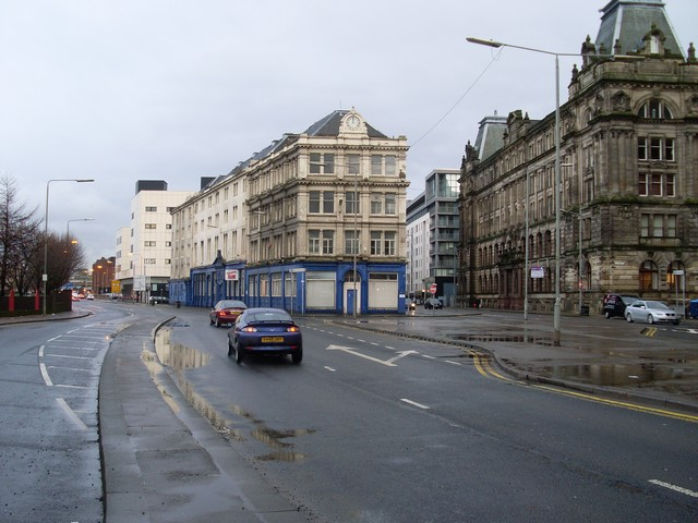 Junction of Paisley Road and Morrison Street Just east of the M8 on the south side of the River Clyde in Glasgow.